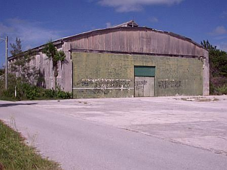 The hangar at the former HMS Malabar, the Fleet Air Arm's Royal Naval Air Station on Boaz Island, Bermuda. Located on Runway Road, this is one of a number of naval buildings still remaining at the former air base.